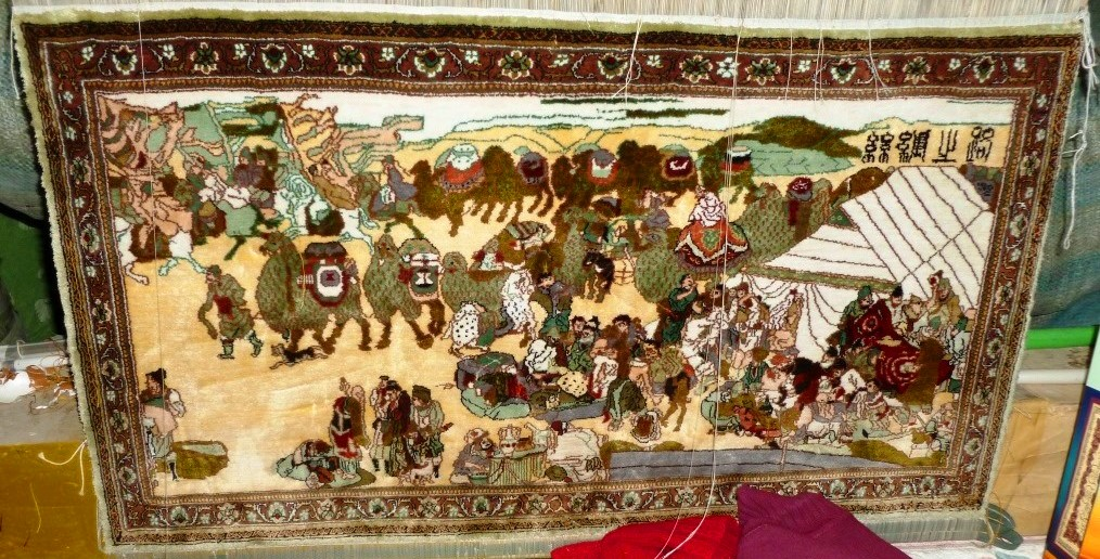 I took this photo on a trip to Xinjiang in 2011.